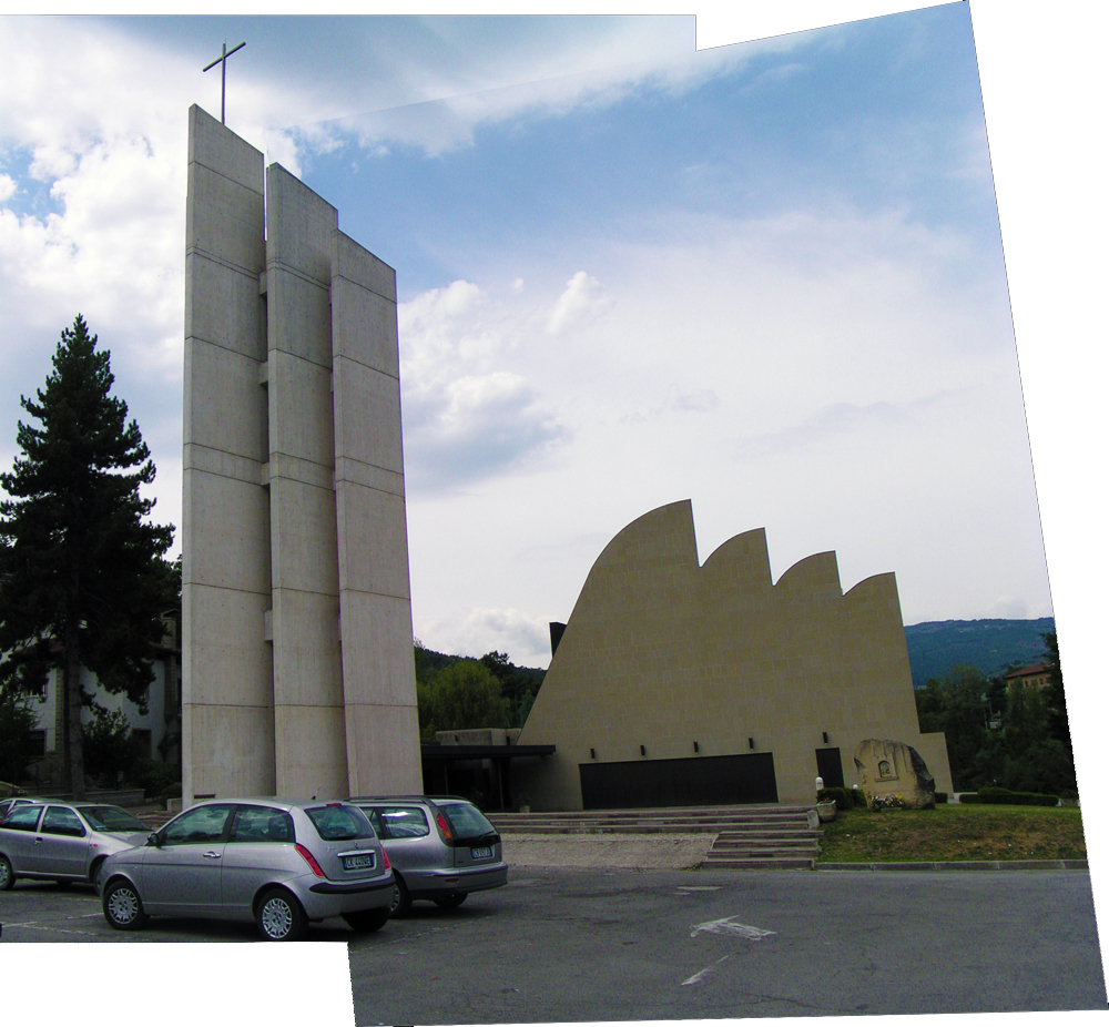 Photo of the East facade of Alvar Aalto's Church at Riola di Vergato